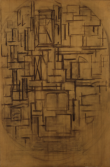 Scaffold: Study for Tableau III, 1914 Charcoal on paper, glued on a homosote panel in 1941 by Mondrian paper 152.5 x 100 cm Peggy Guggenheim Collection, Venice 76.2553 PG 37